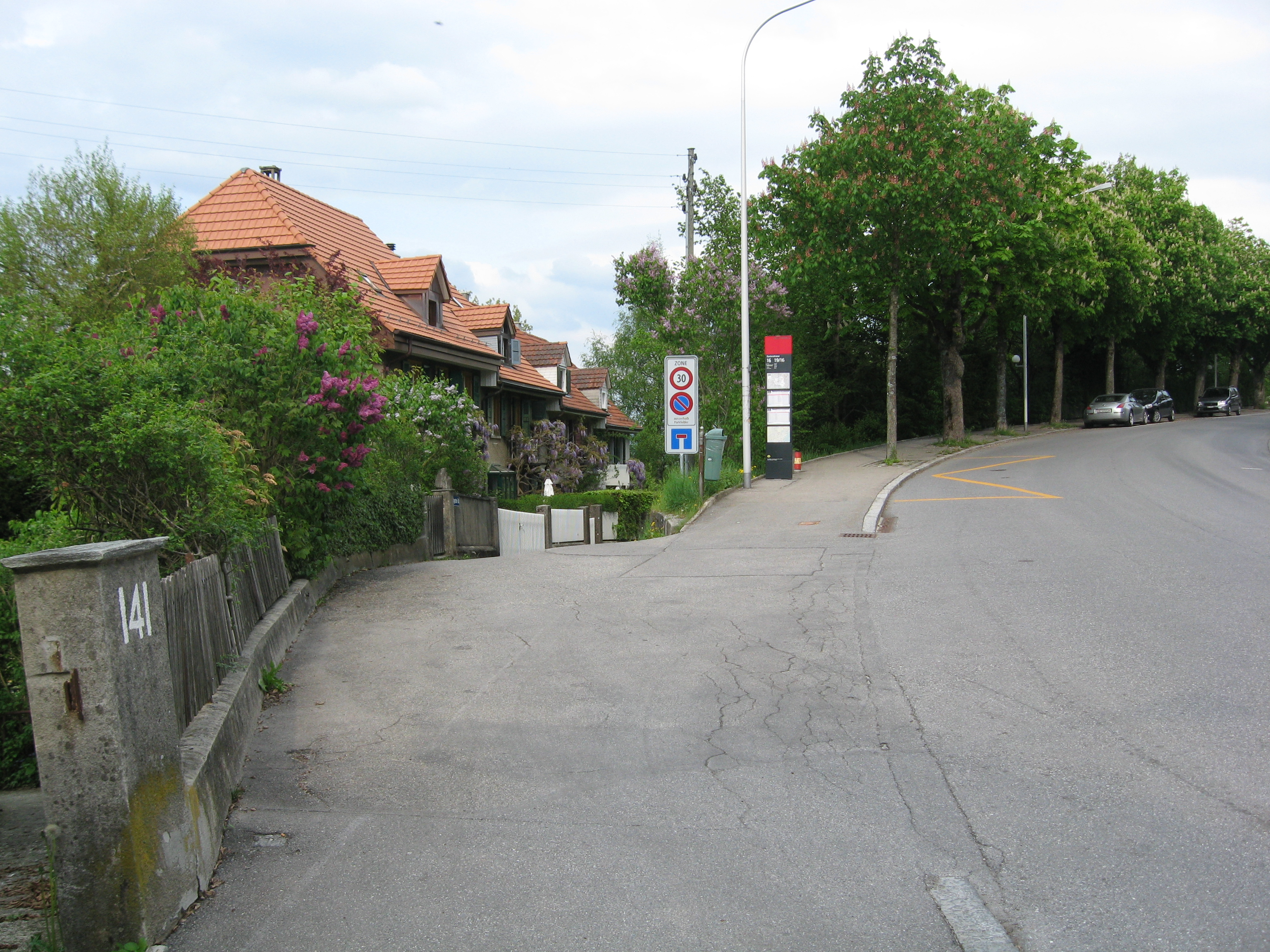 Bus Station "Gurtengartenstadt" on Bellevuestrasse, Spiegel, Koeniz, Bern, Switzerland